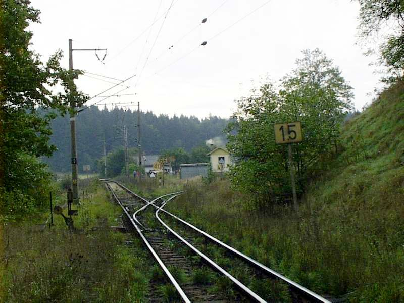 Switch-bifurcation of dual gauge rail near Jindřichův Hradec